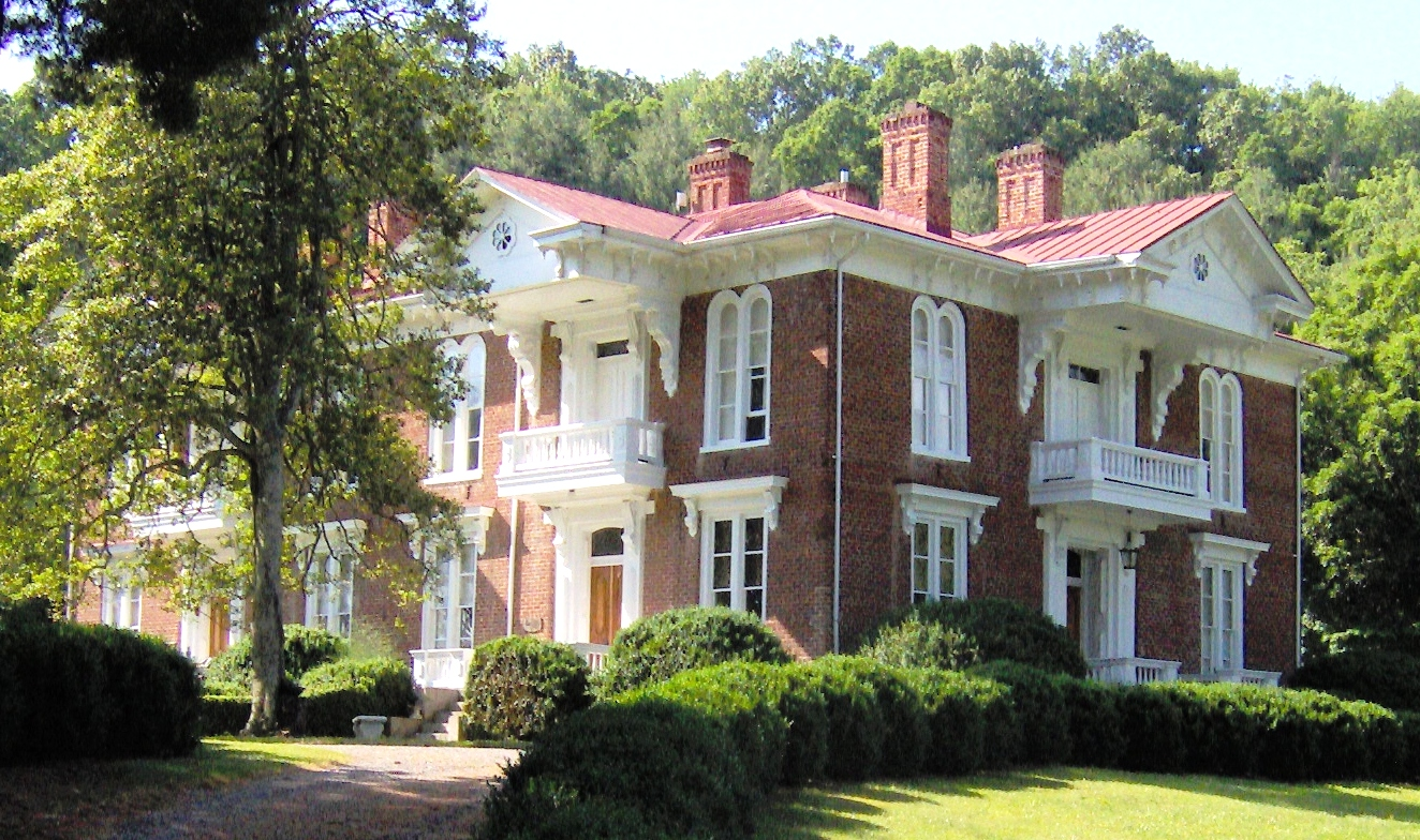 The Roderick Butler House in Mountain City, in the U.S. state of Tennessee. Located at 309 N. Church Street, this house was built by Union Civil War veteran and U.S. Congressman Roderick Random Butler (1827–1902) sometime around 1870. It was added to the U.S. National Register of Historic Places in 1973, and today is a bed-and-breakfast.